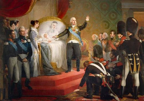 The birth of Henri, duc de Bordeaux, at the Tuileries Palace, 29 September 1820